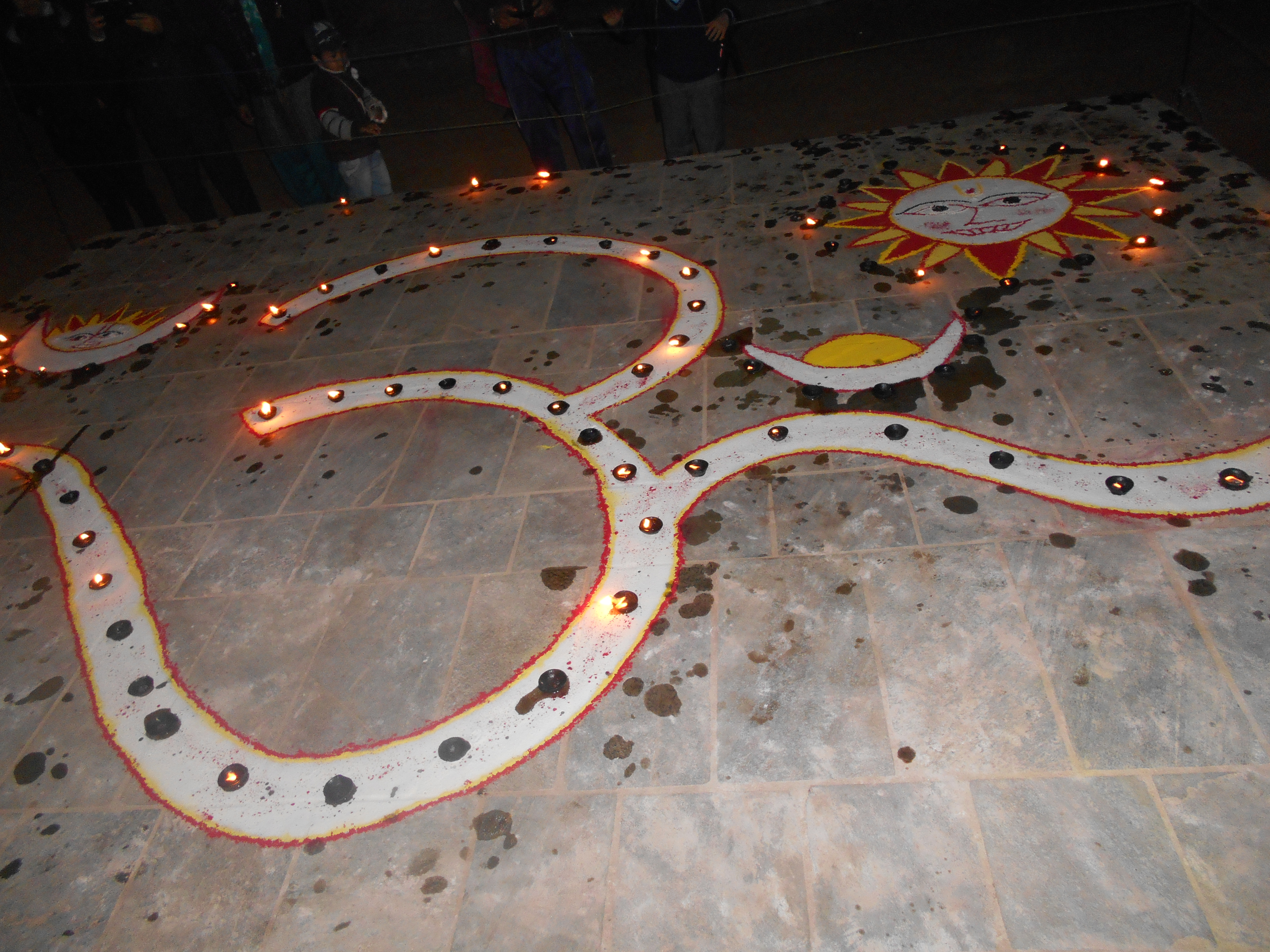 Local celebration during the Newar festival Sakimana Punhi